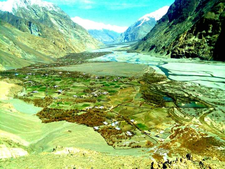 A view from domboht